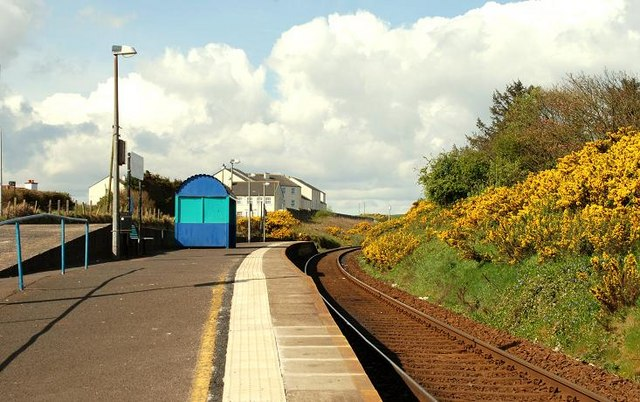 Dhu Varren railway station. Dhu Varren station, opened in 1969, is built on the site of the old Glenmanus stone siding (still in existence on the left). The view is towards Coleraine.